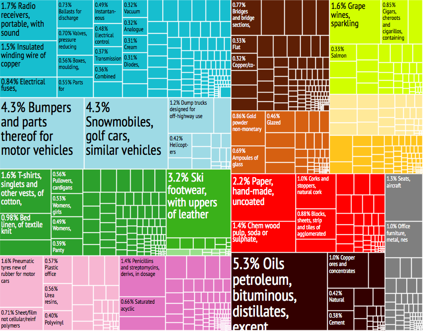 A proportional representation of Portugal's exports.